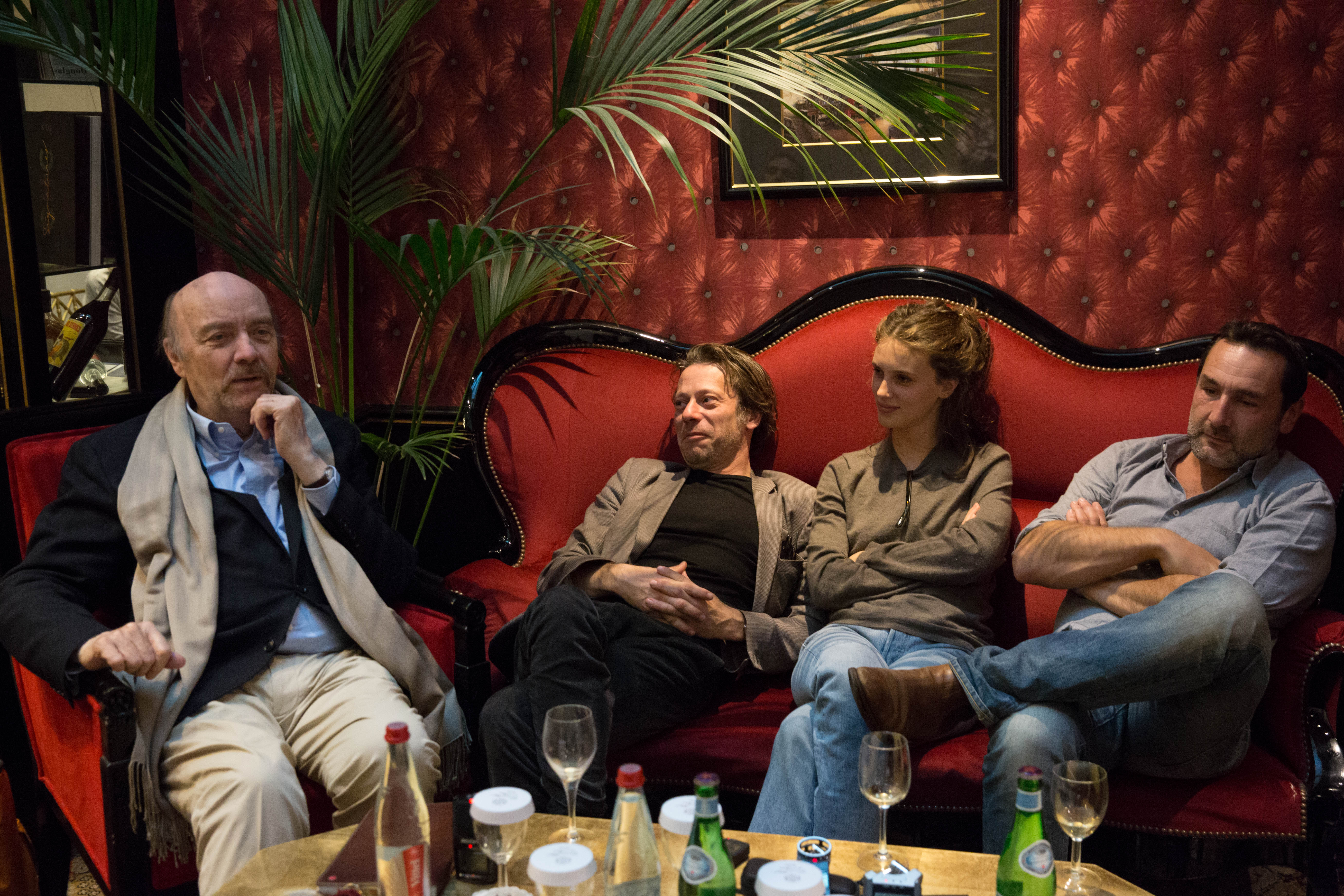 Team of the french movie "Belles Familles" at grand hotel opéra, Toulouse, France